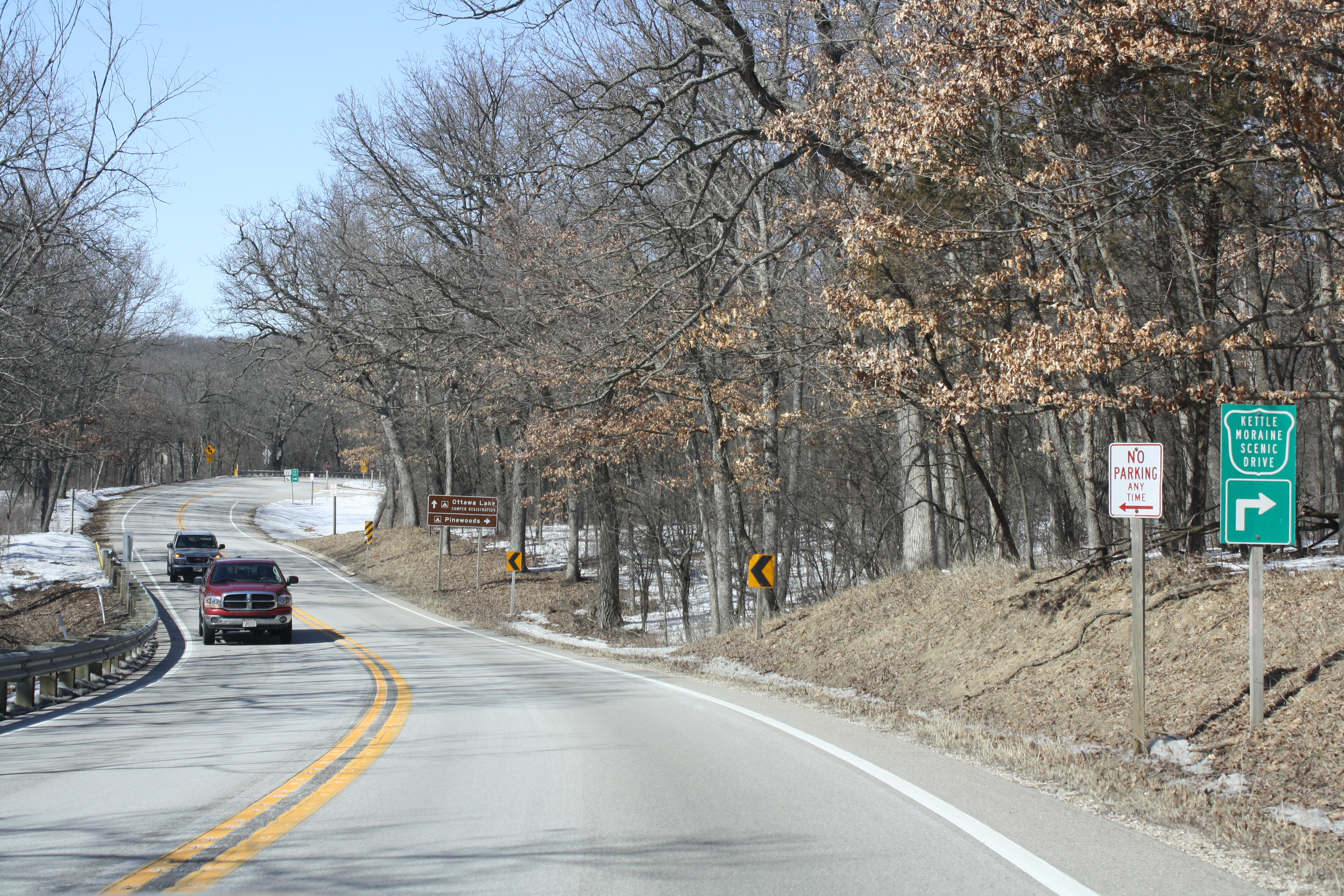 The Kettle Moraine Scenic Drive in the Southern Unit of the Kettle Moraine State Forest.